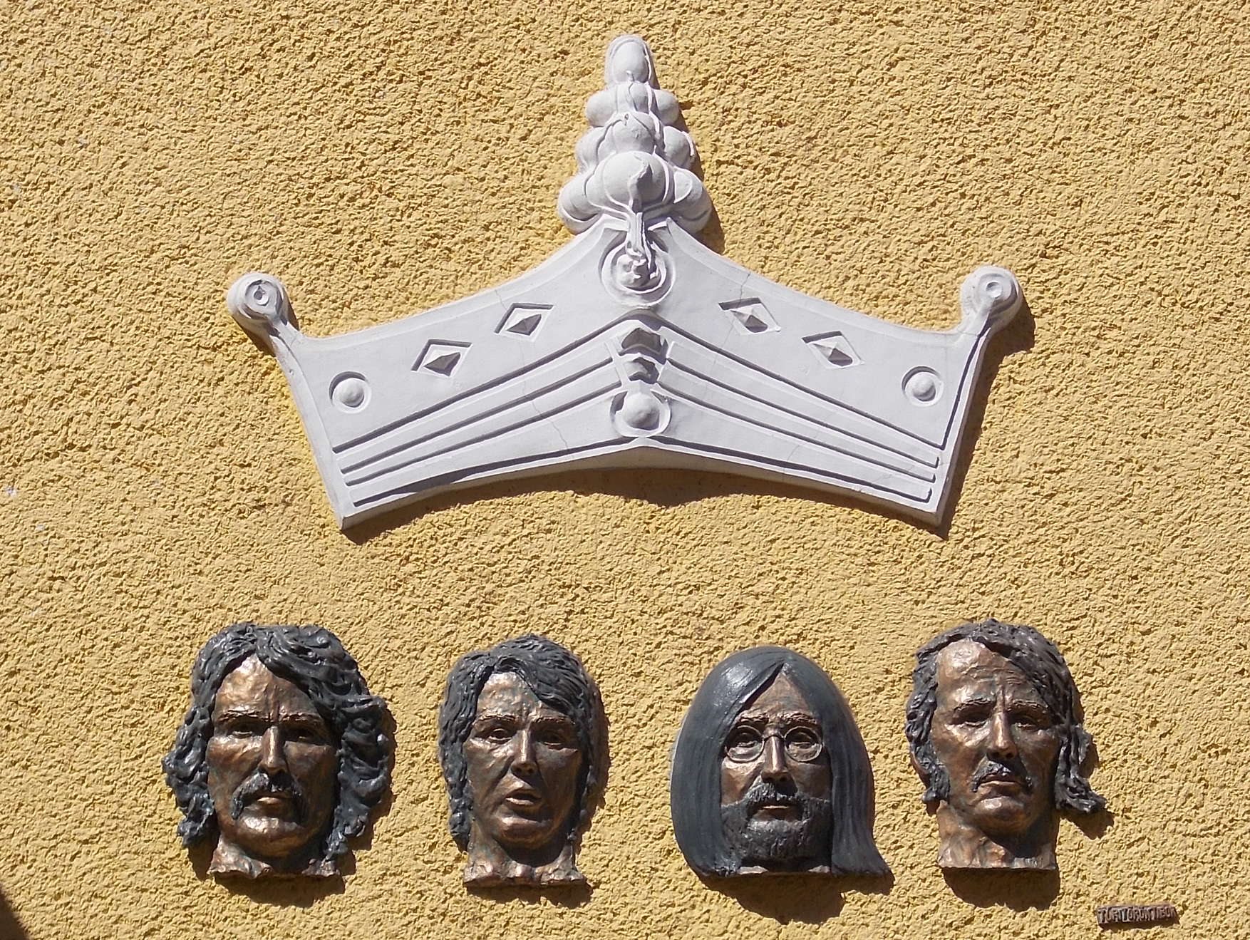 Beatles Museum. - 30 Csíki Street, Eger, Heves County, Hungary.